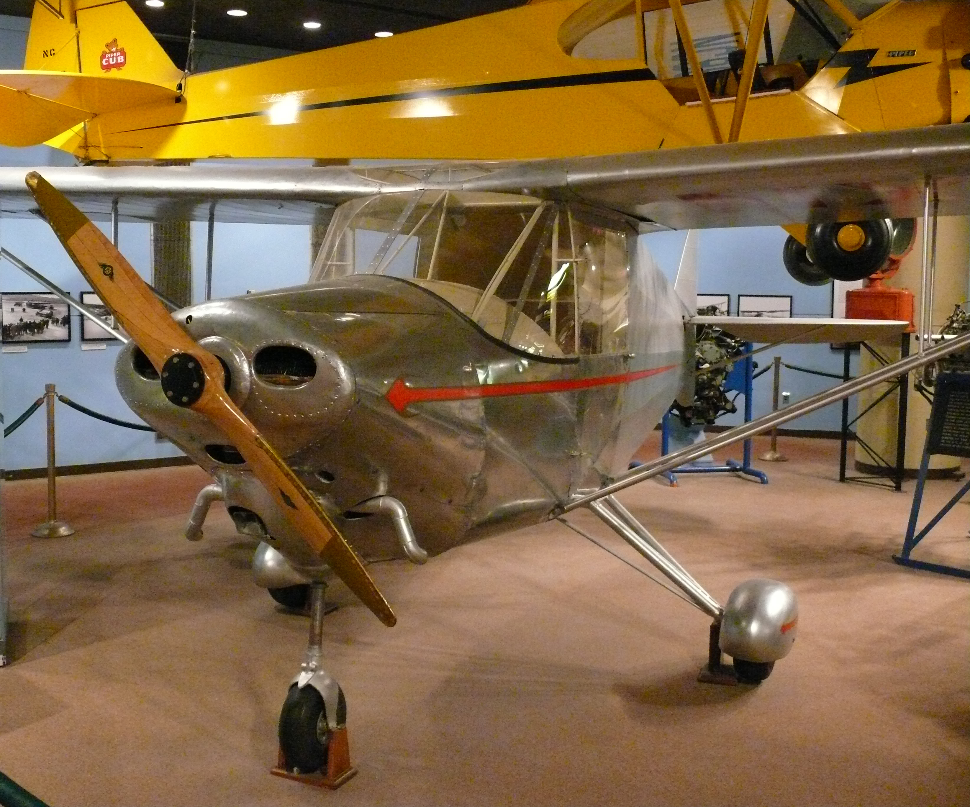 In 1940 Paul H. Knepper from Tamaqua, PA, built the ‘Crusader’ as a prototype for a training plane that he had planned to commercially produce in Lehighton. The two-seater featured an innovative tricycle landing gear with a wheel under its nose that prevented the tail from dragging upon landing. Although advanced for its day the Crusader was never commercially produced as WWII forced a halt in the manufacture of commercial aircraft. In 1990 friends of Paul Knepper restored the Crusader and donated it to the State Museum of Pennsylvania. In the background one sees a Piper V Cub J3C-65